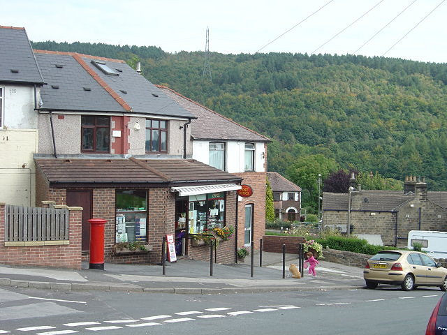 Wharncliffe Side Post Office